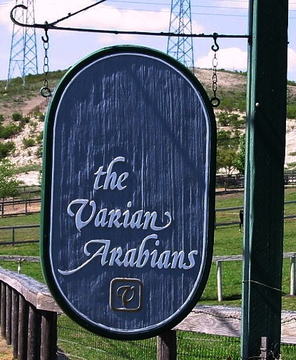 Varian Arabians Varian Arabians "Spring Fling" presentation of horses, 2002